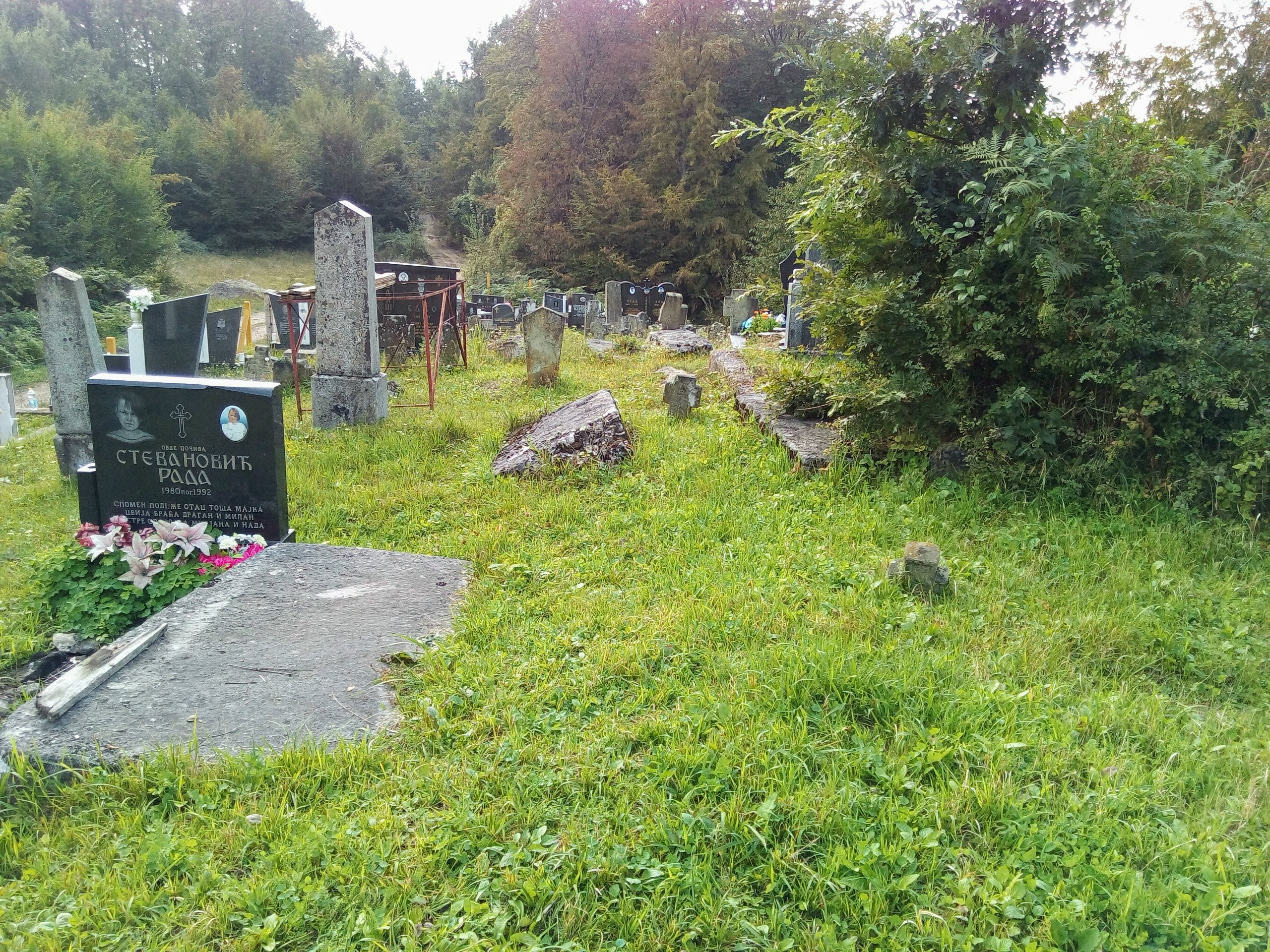 Rogojevina, cemetery and necropolis of stećak tombstones